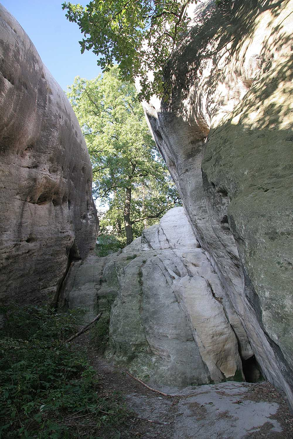 Natural Monument Bílé kameny near village Jitrava, district Liberec, Czech Republic autor: Prazak date: 22. 9. 2006